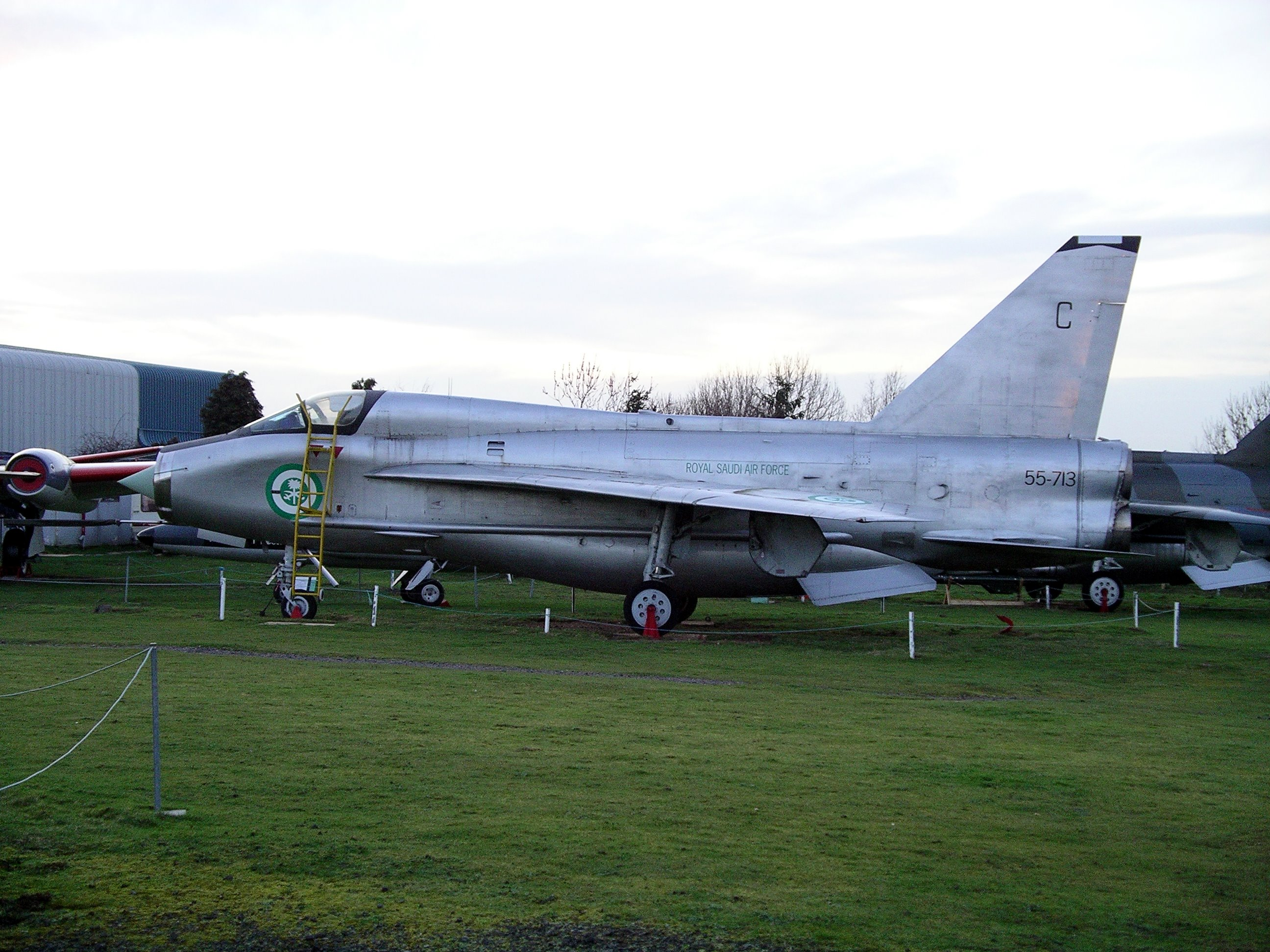 Photo taken by me on 6 March 2007 of one an English Electric Lightning T.55 55-713 at the Midland Air Museum, Warwickshire, England. It is in Royal Saudi Air Force markings, one of two in the UK with its original Saudi markings.